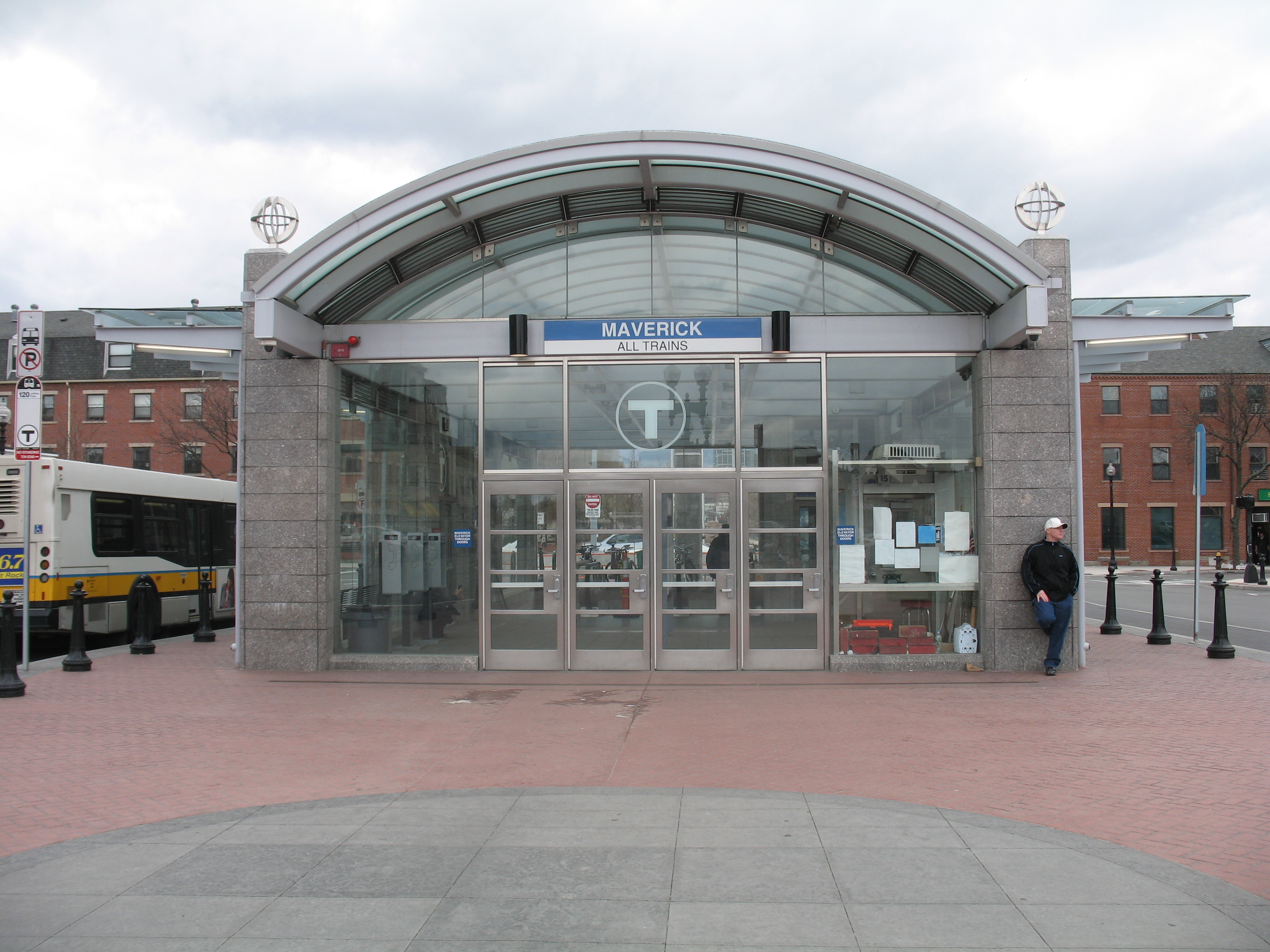 Maverick